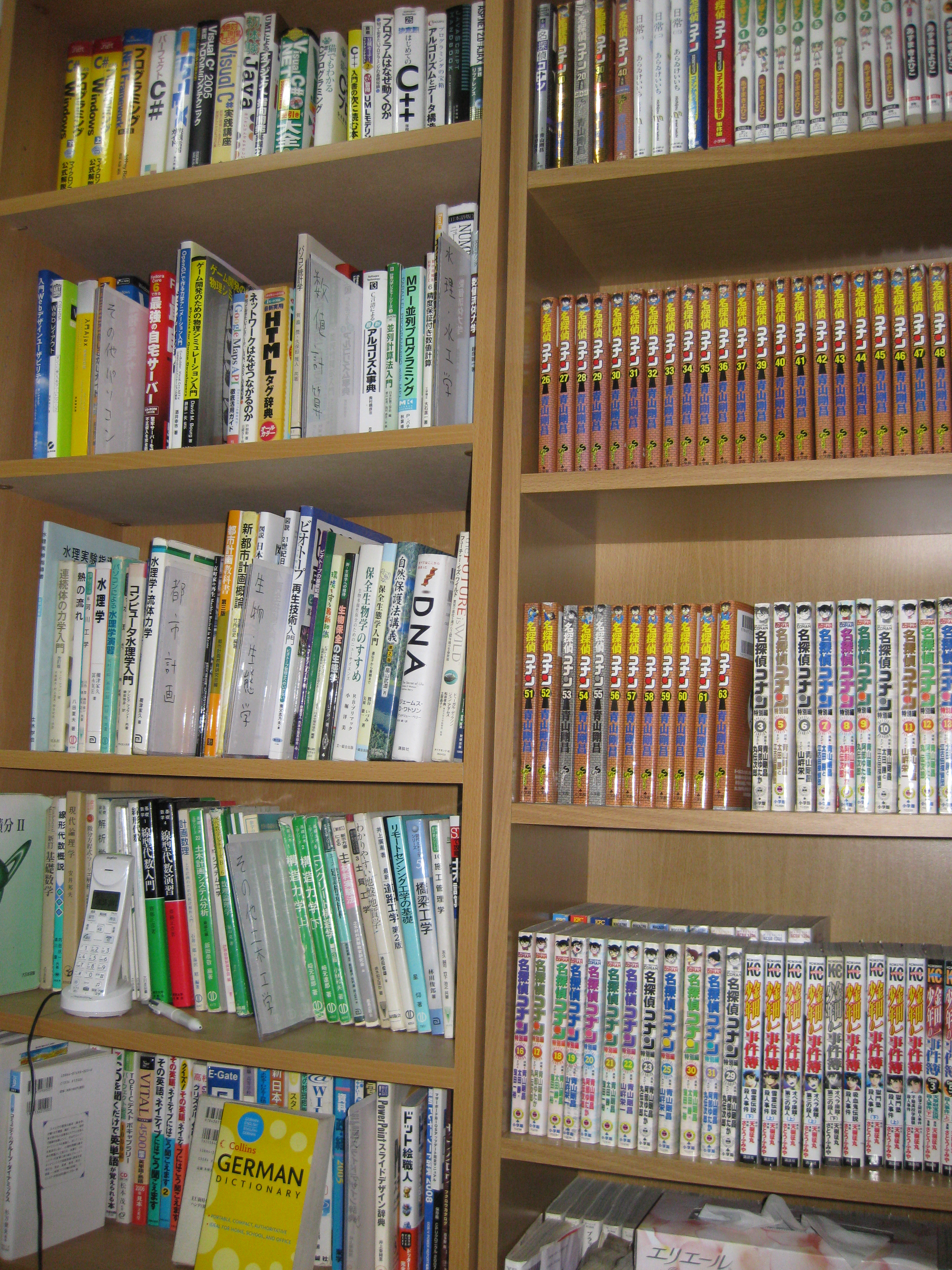 Bookshelves with books and manga, which are 青子守歌's.